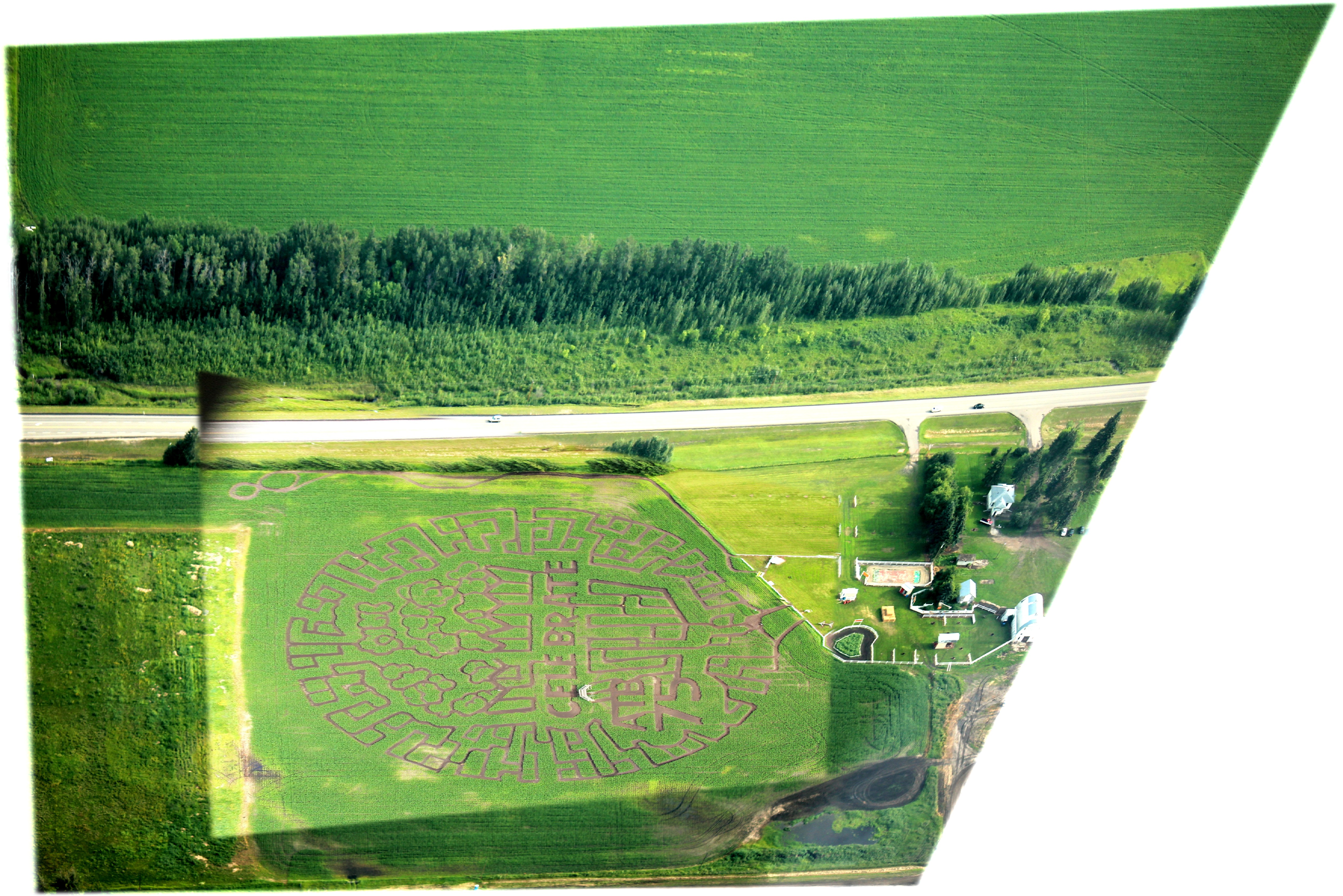 Arial Picture of the Edmonton Corn Maze